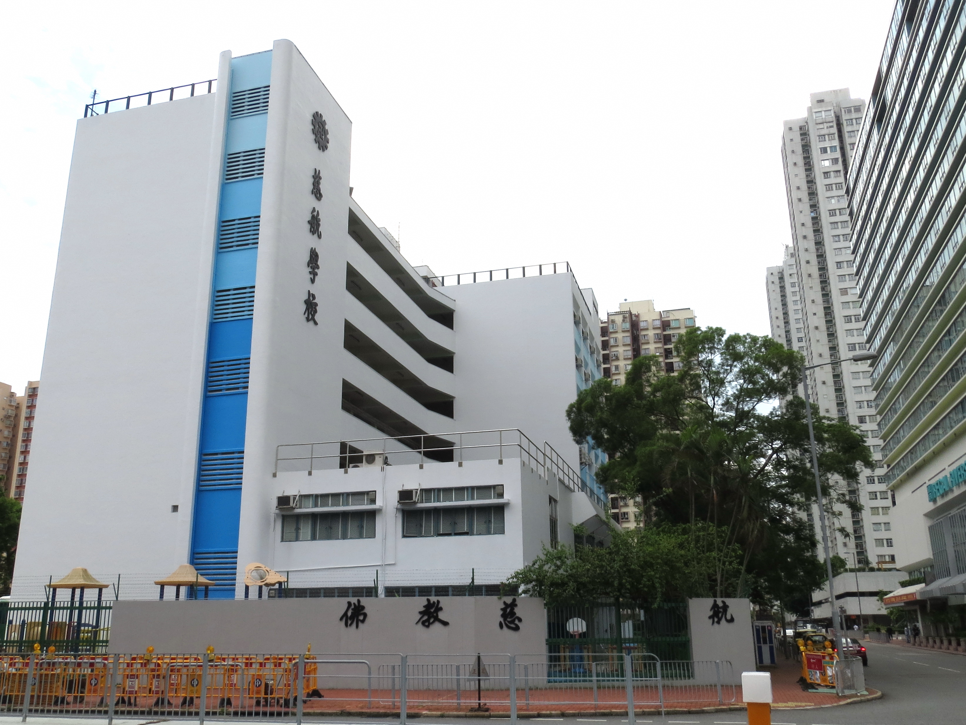 Chi Hong Primary School, Sha Tin, New Territories, Hong Kong.